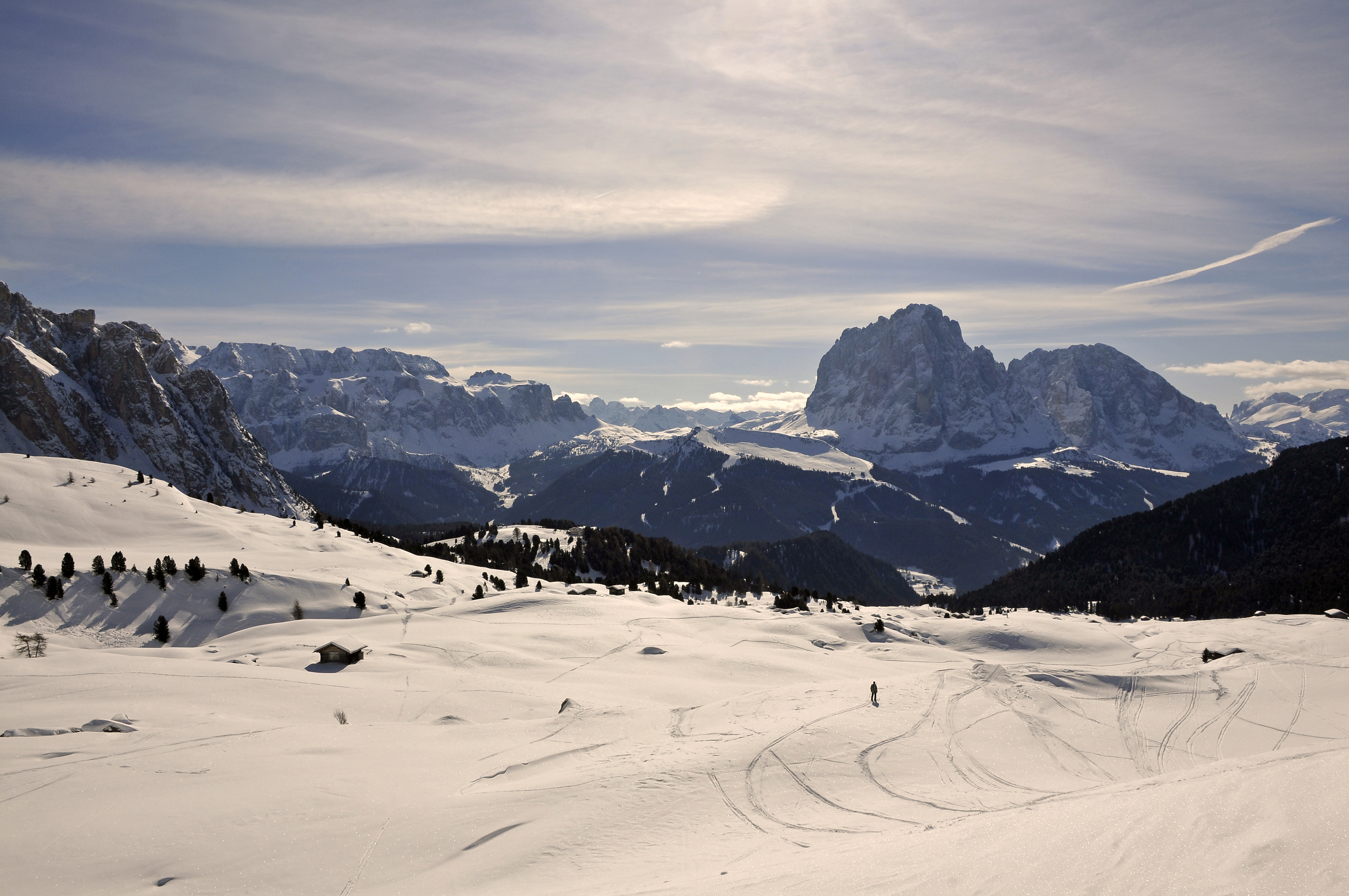 The Val Gardena in winter from the Mount Seceda in the Dolomites